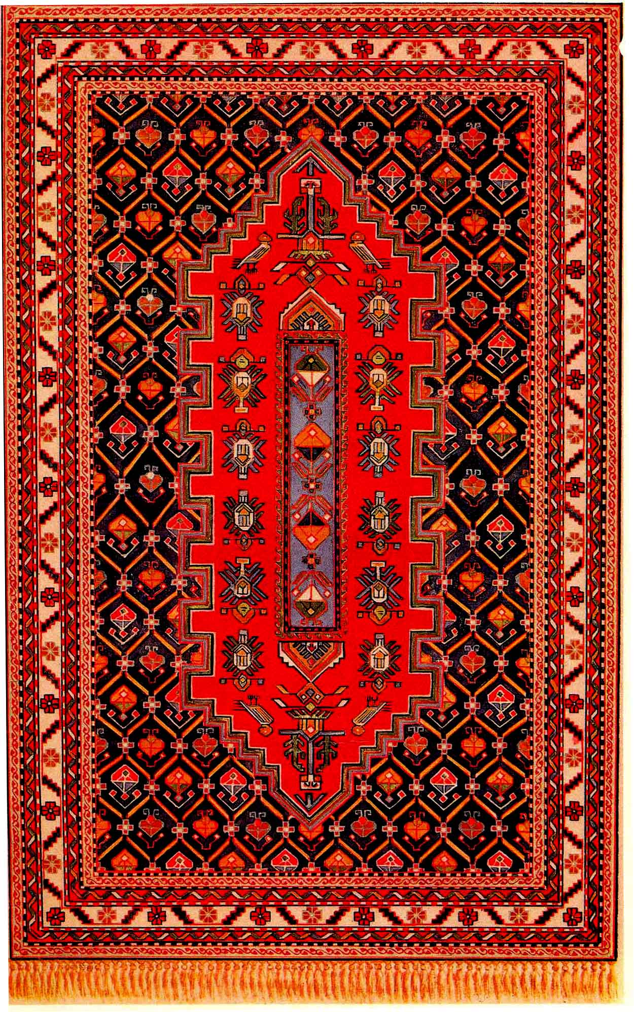 Chayli rug, XIX c.